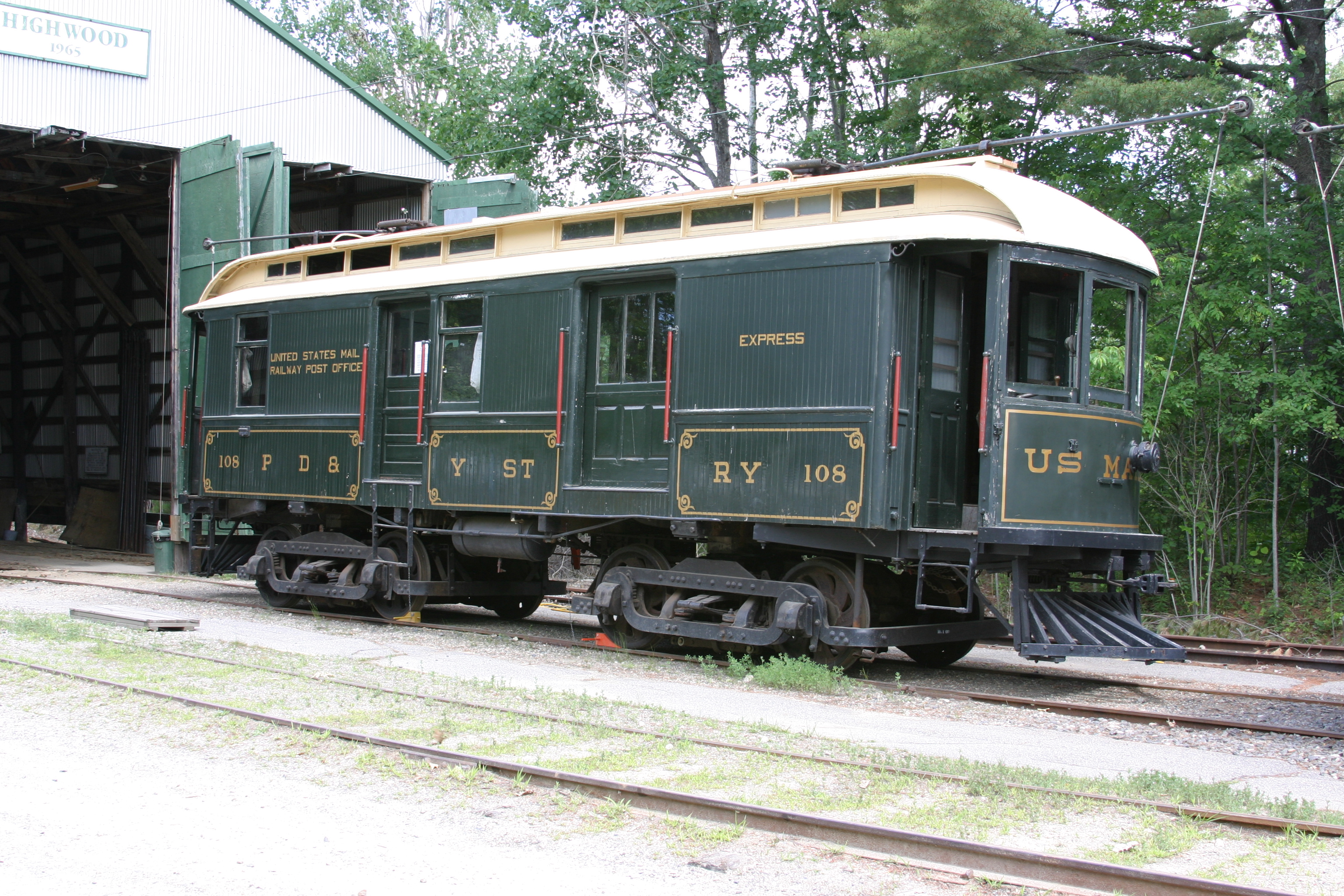 Exhibit at the Seashore Trolley Museum at Kennebunkport, Maine, USA. Car 108 of the Portsmouth, Dover & York Street Railway, which operated in both Maine and New Hampshire, was built in 1904 by the Laconia Car Company, of Laconia, New Hampshire. It was built as a railway post office and freight express car, and carried mail until 1918. From 1918 until 1947, it was used as a freight express car or for overhead-line maintenance. Car 108 is one of 10 rail cars at the museum that are listed, collectively (as "Maine Trolley Cars"), on the U.S. National Register of Historic Places.